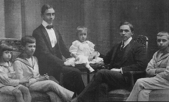 The Six son Robert I Duke of Parma